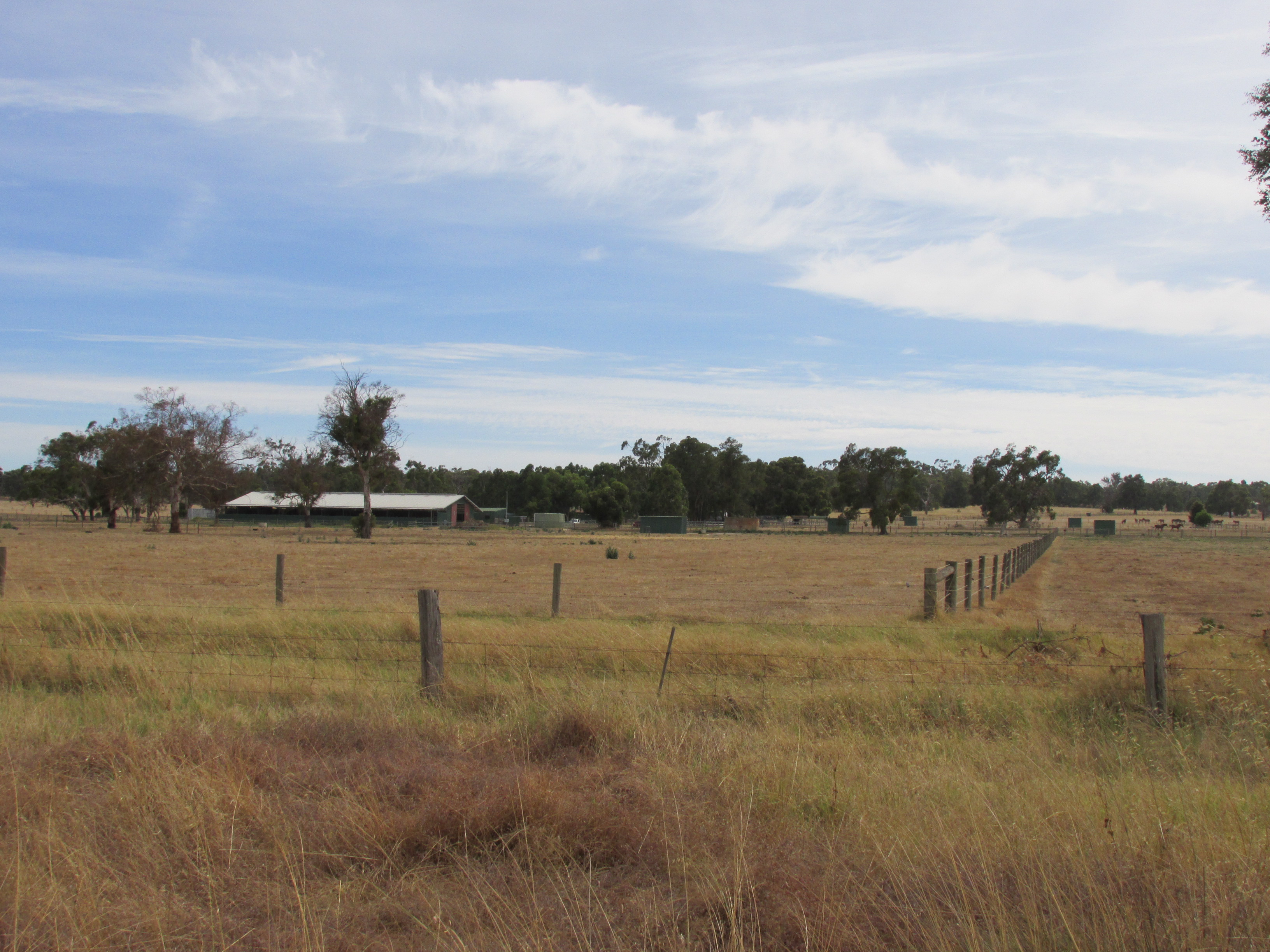 Looking east from the Chittering/Swan shire boundary on Great Northern Highway into the rural eastern part of Muchea, Western Australia.